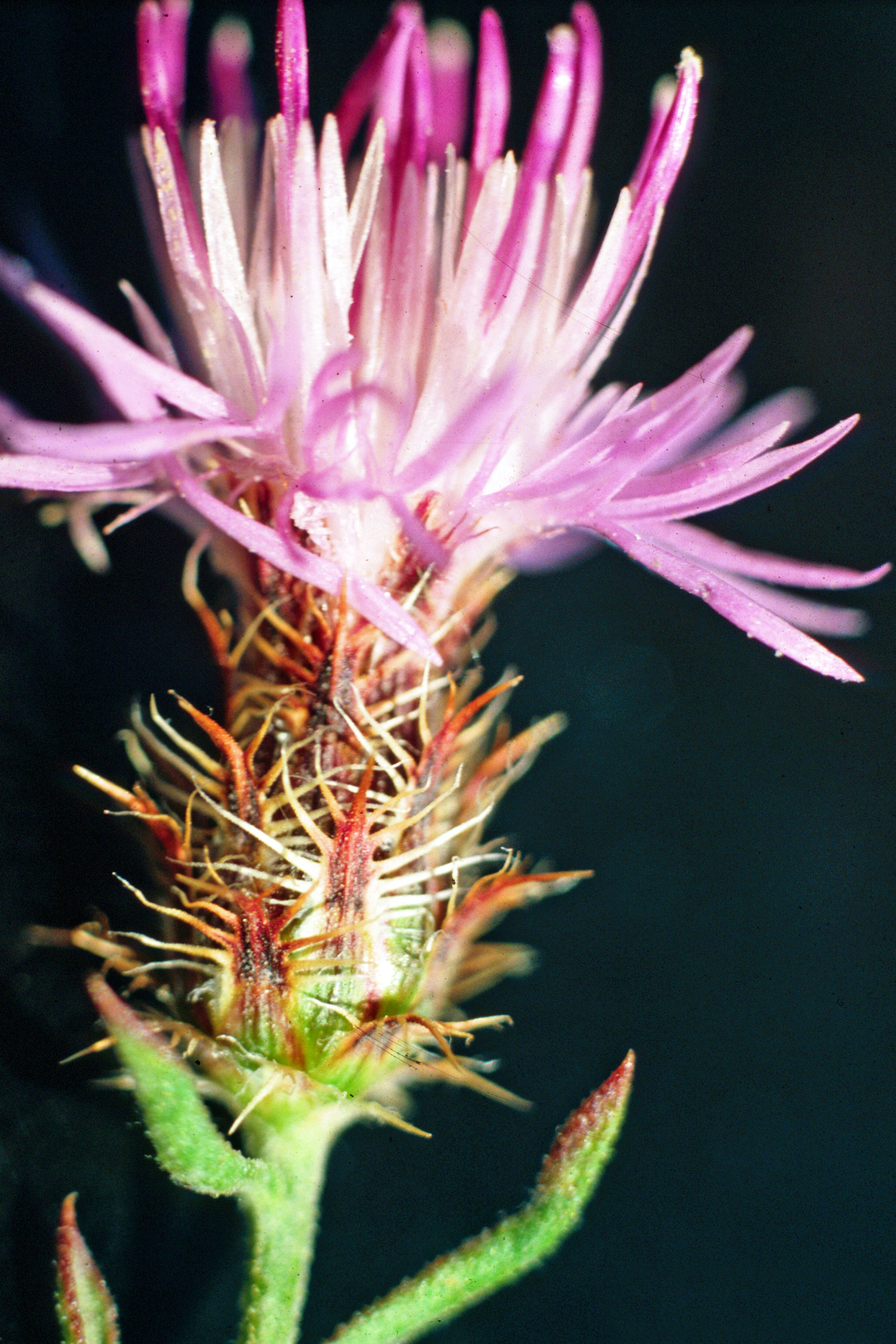 diffuse knapweed Centaurea diffusa Lam. - flower - United States